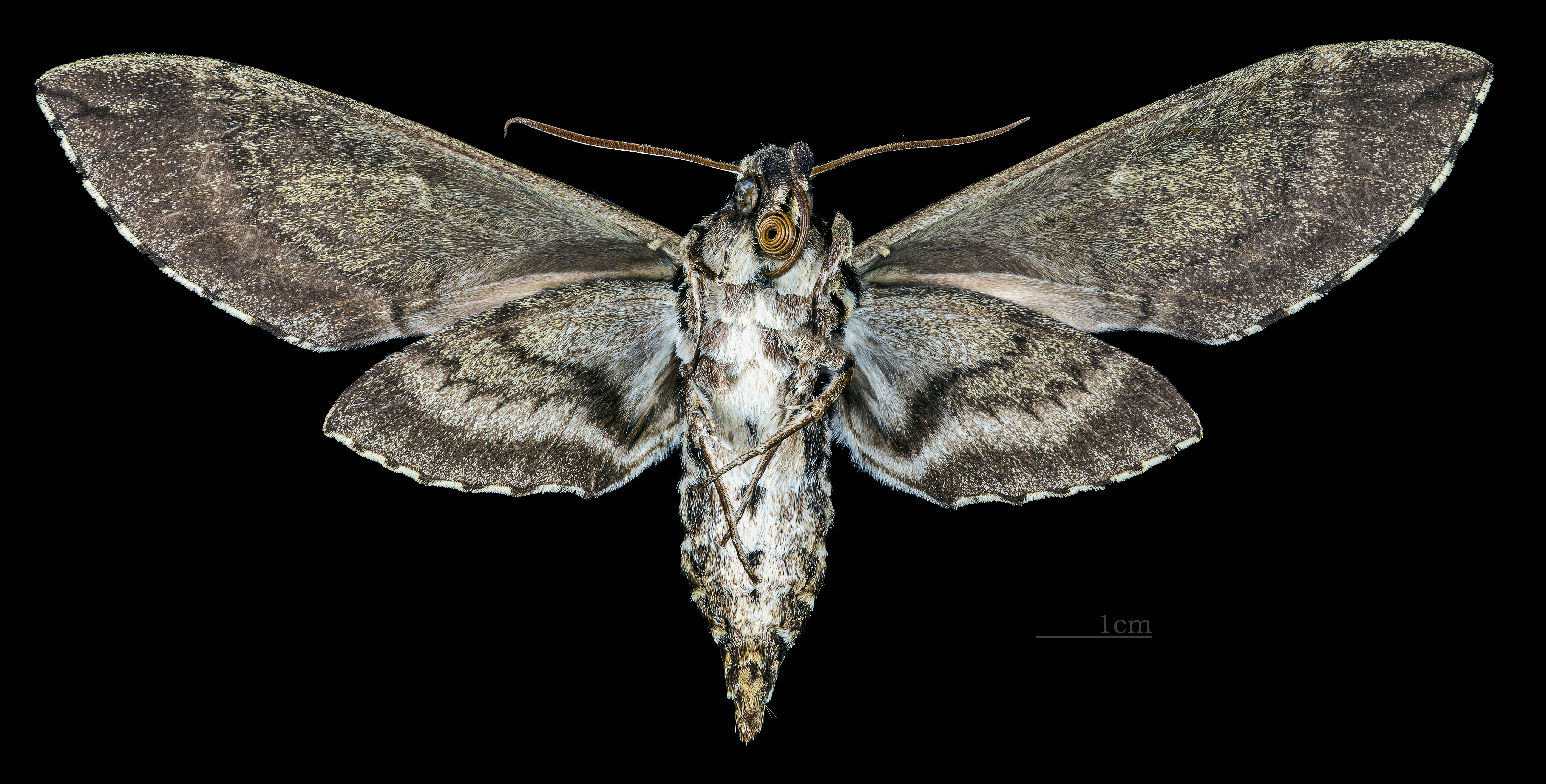 Manduca morelia - △ Ventral side